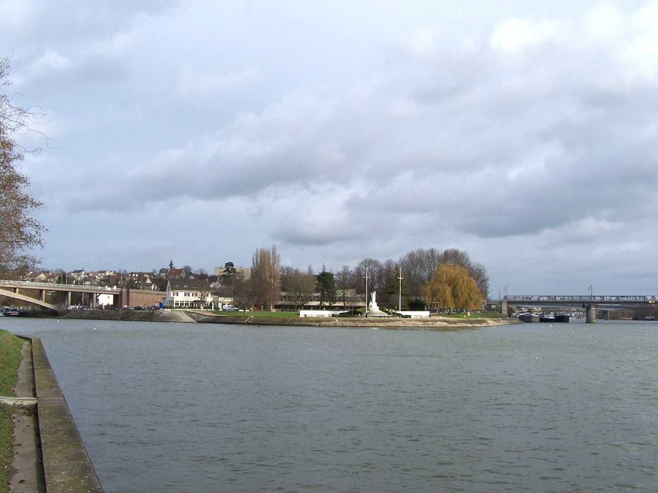 Fin d'Oise (End of Oise), meeting of the river Oise and the river Seine in Conflans-Sainte-Honorine (Yvelines, France)